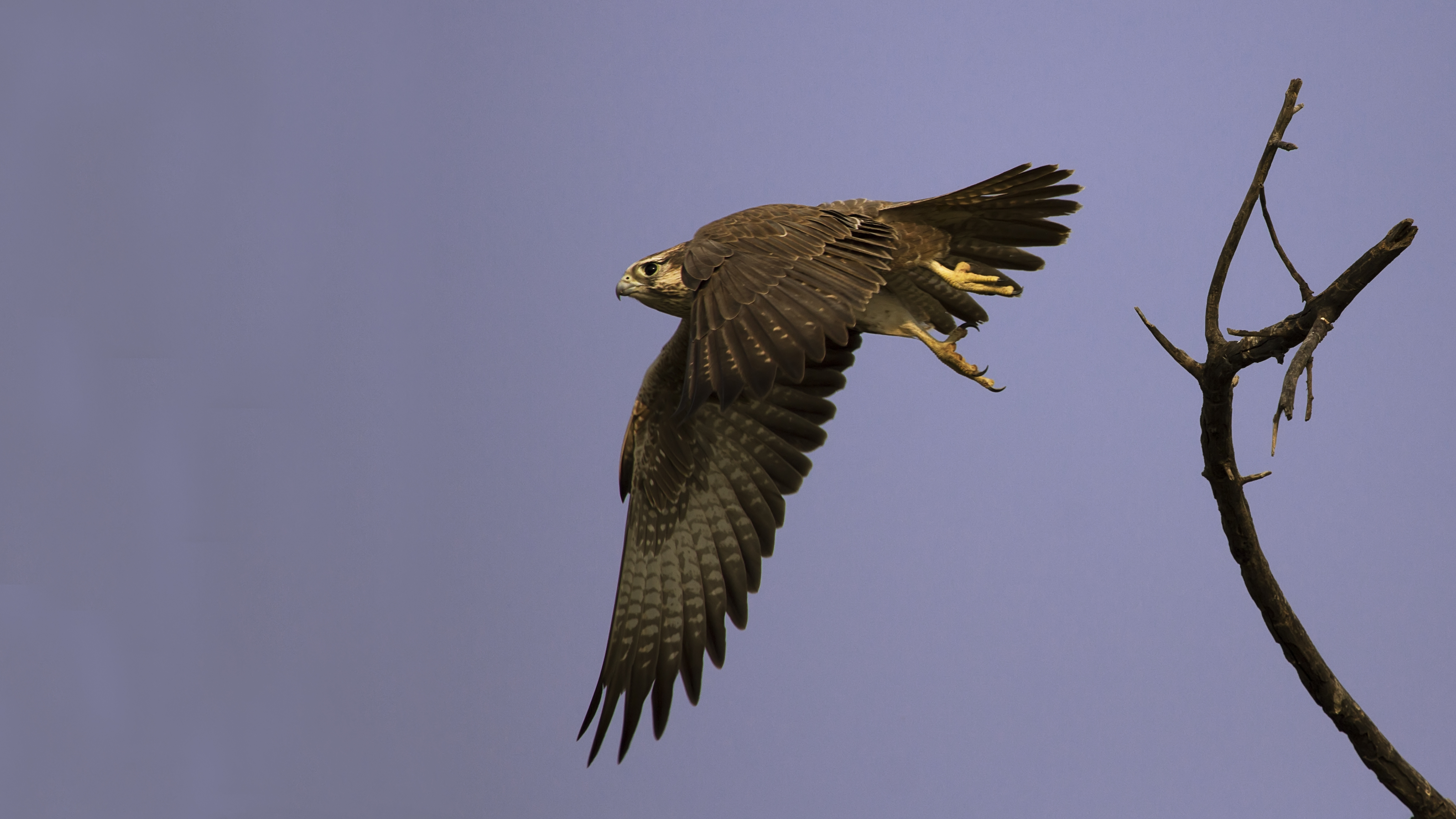 A Laggar Falcon begins a typical swoop at Tal Chappar Sanctuary, Rajasthan, India.